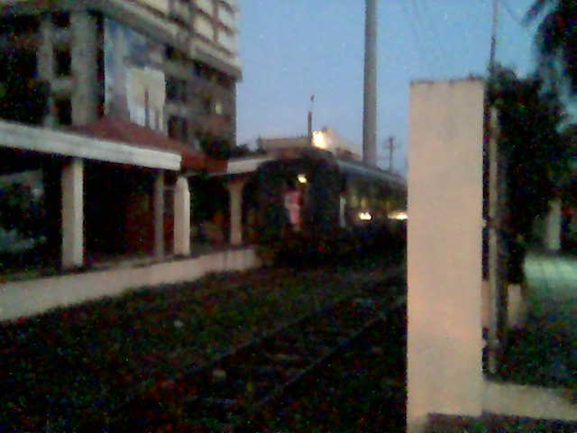 Exterior or Buendia railway station with a departing Commex commuter train